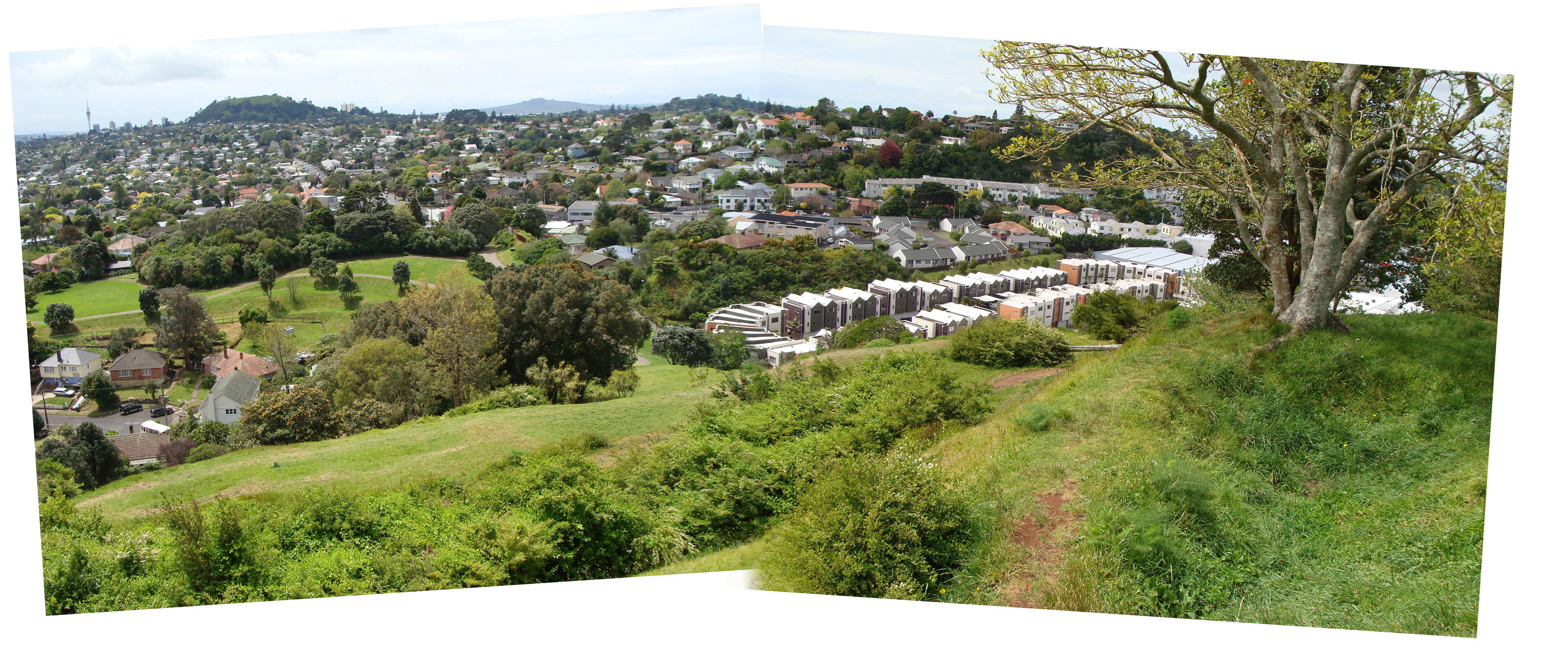 View looking north-east from summit of Three Kings scoria cone, Auckland, New Zealand.